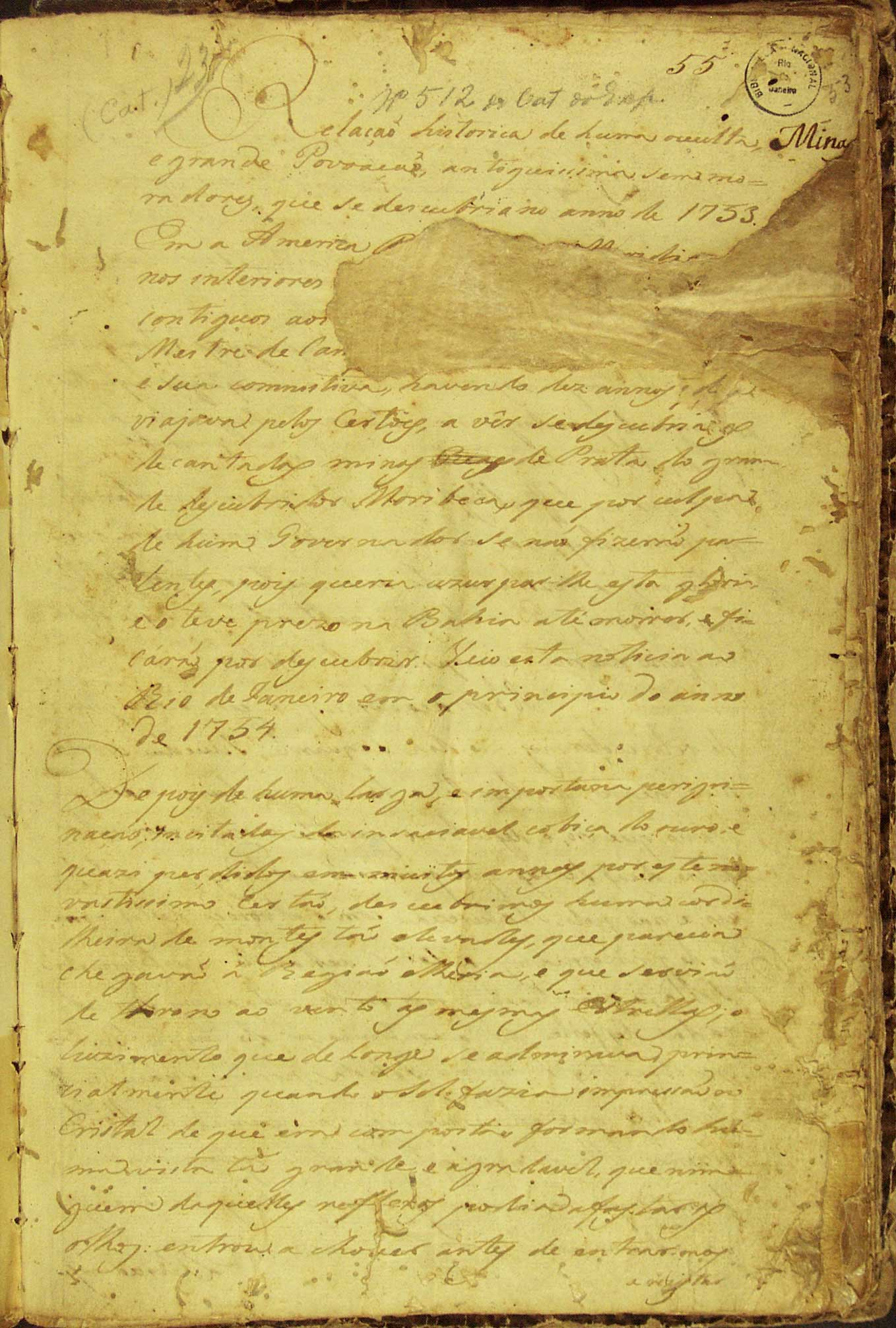 Page 1 of Manuscript 512, published in 1753 (unknow author).